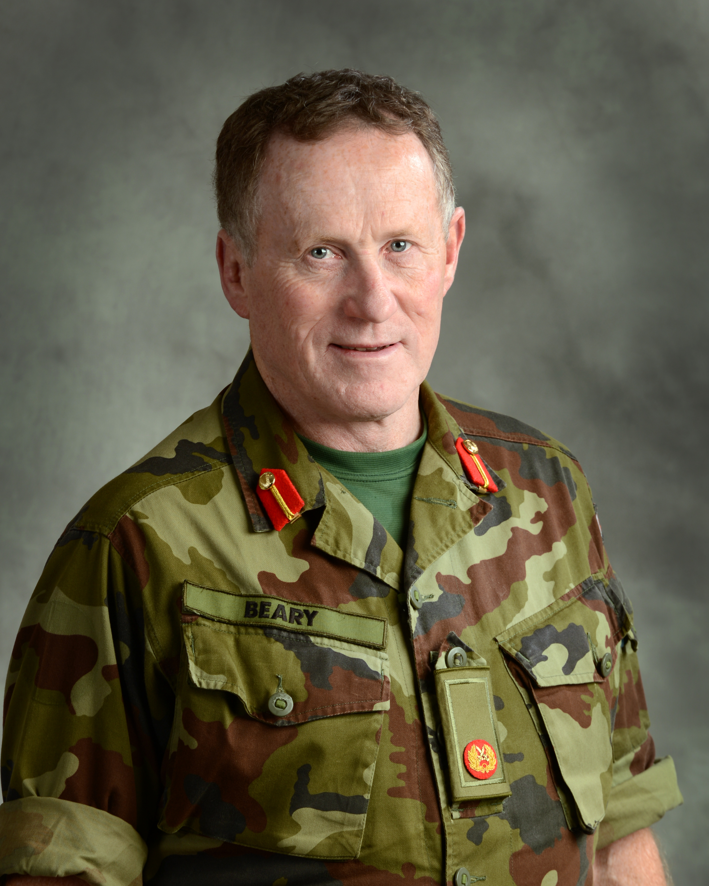 Official portrait released by the Irish Defence Forces of Major General Michael Beary, Head of Mission and Force Commander of the United Nations Interim Force in Lebanon (UNIFIL).